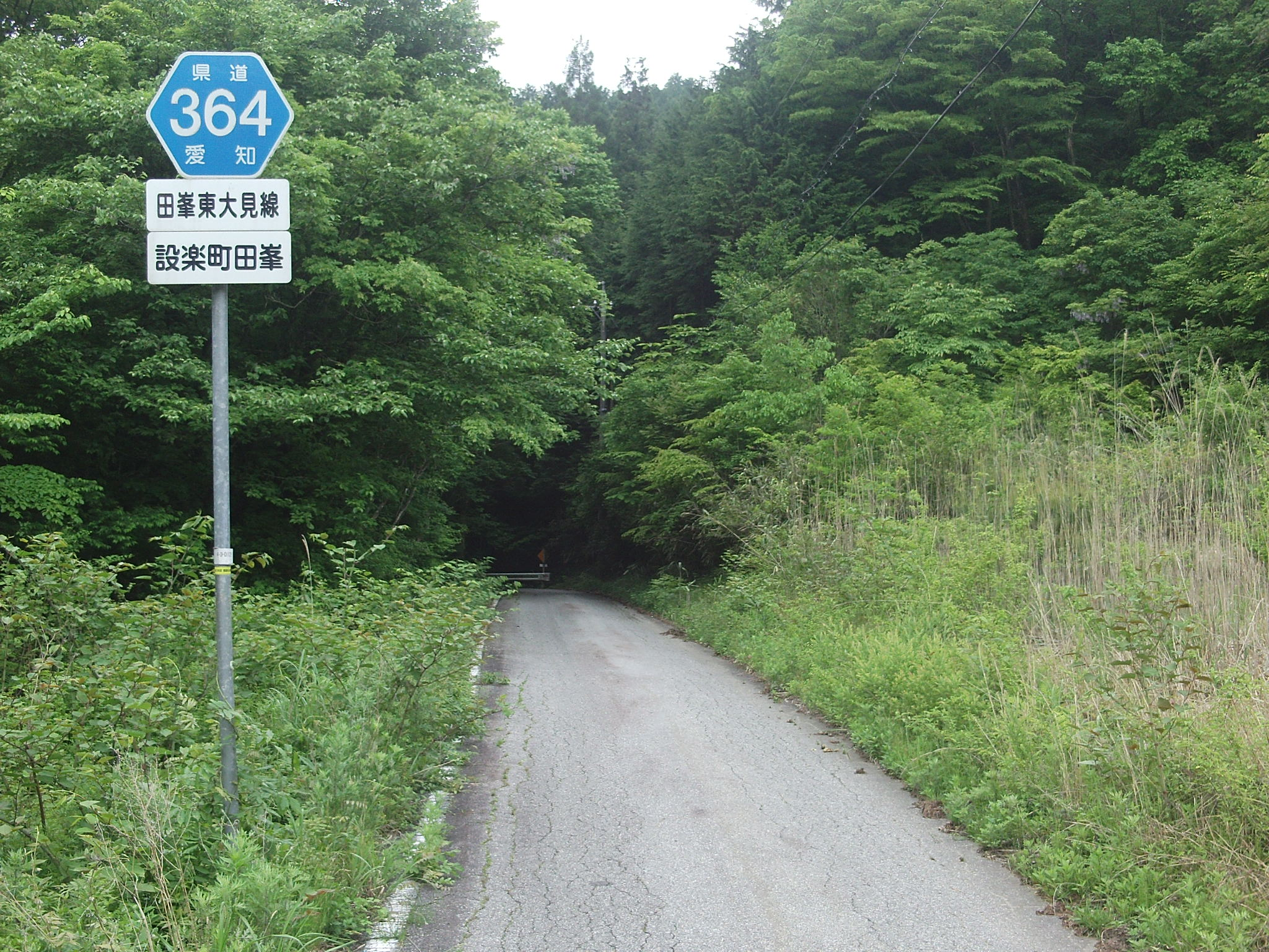 Aichi prefectural road No.364 in Damine, Shitara-cho, Kitashitara-gun, Aichi.